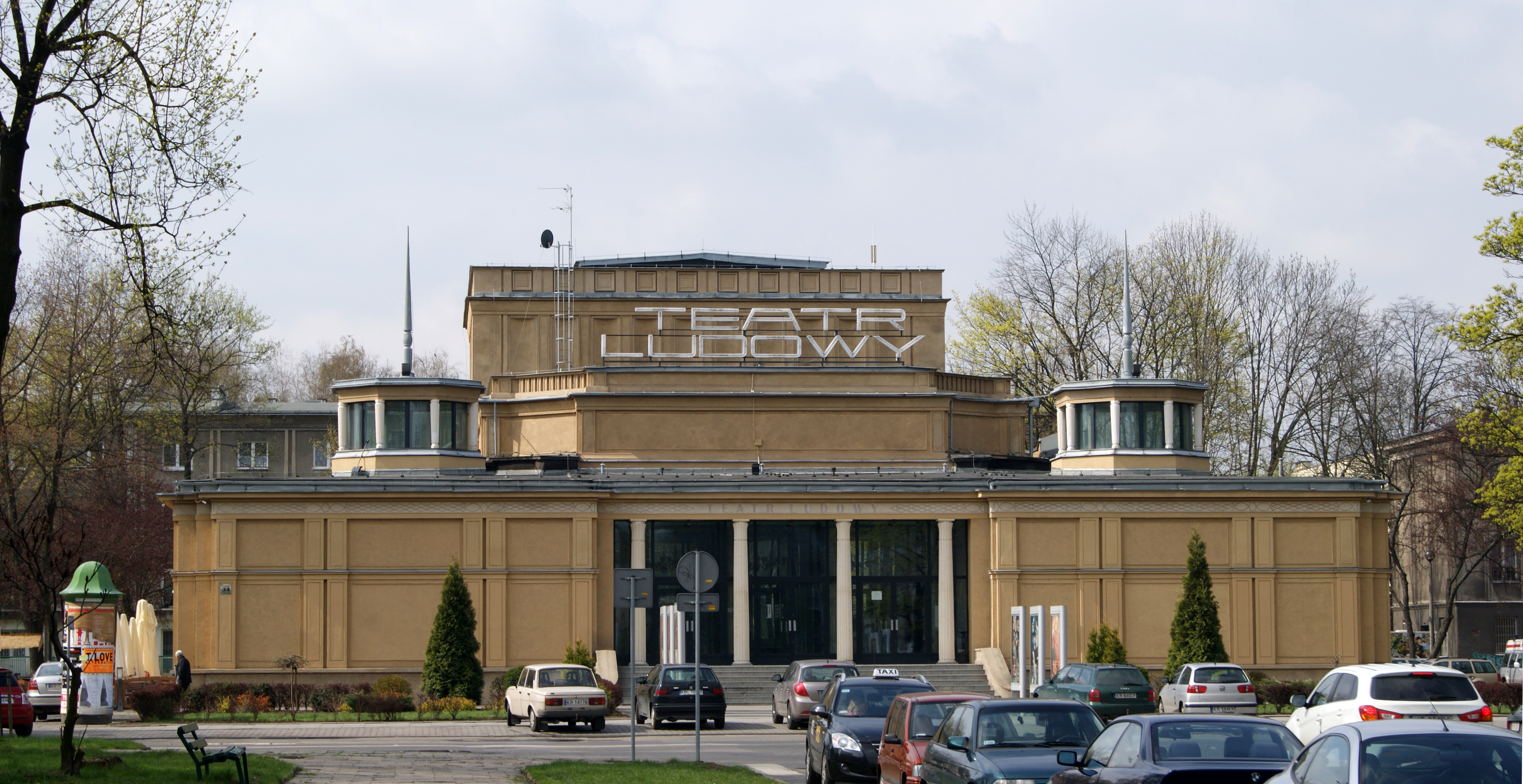 Ludowy (People's) Theater, 34 Teatralne Estate, Nowa Huta,Krakow,Poland